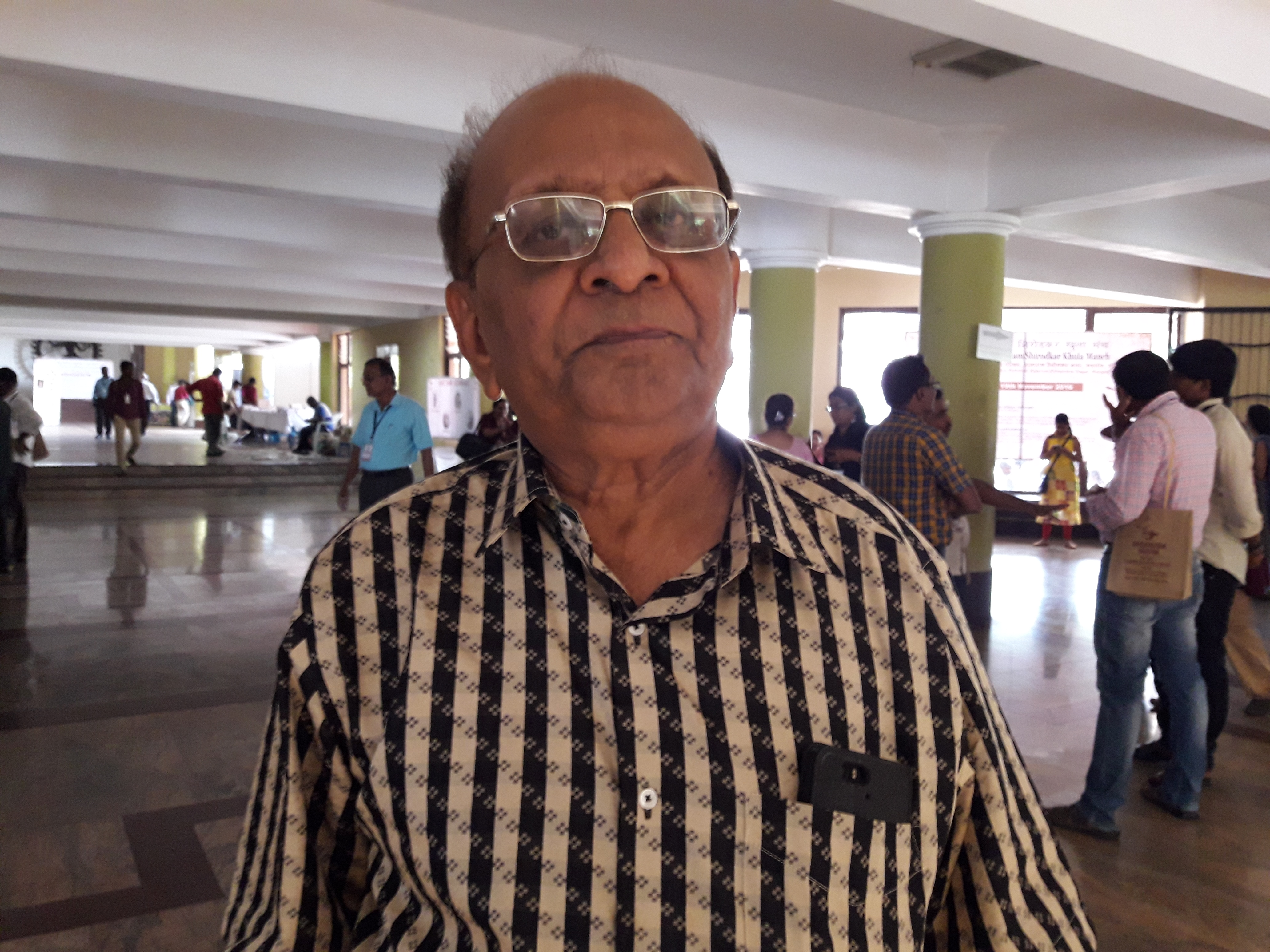 Gujarati Poet Anil Joshi at Ravindra Bhavan, Margao, Goa, India on 19 November 2016